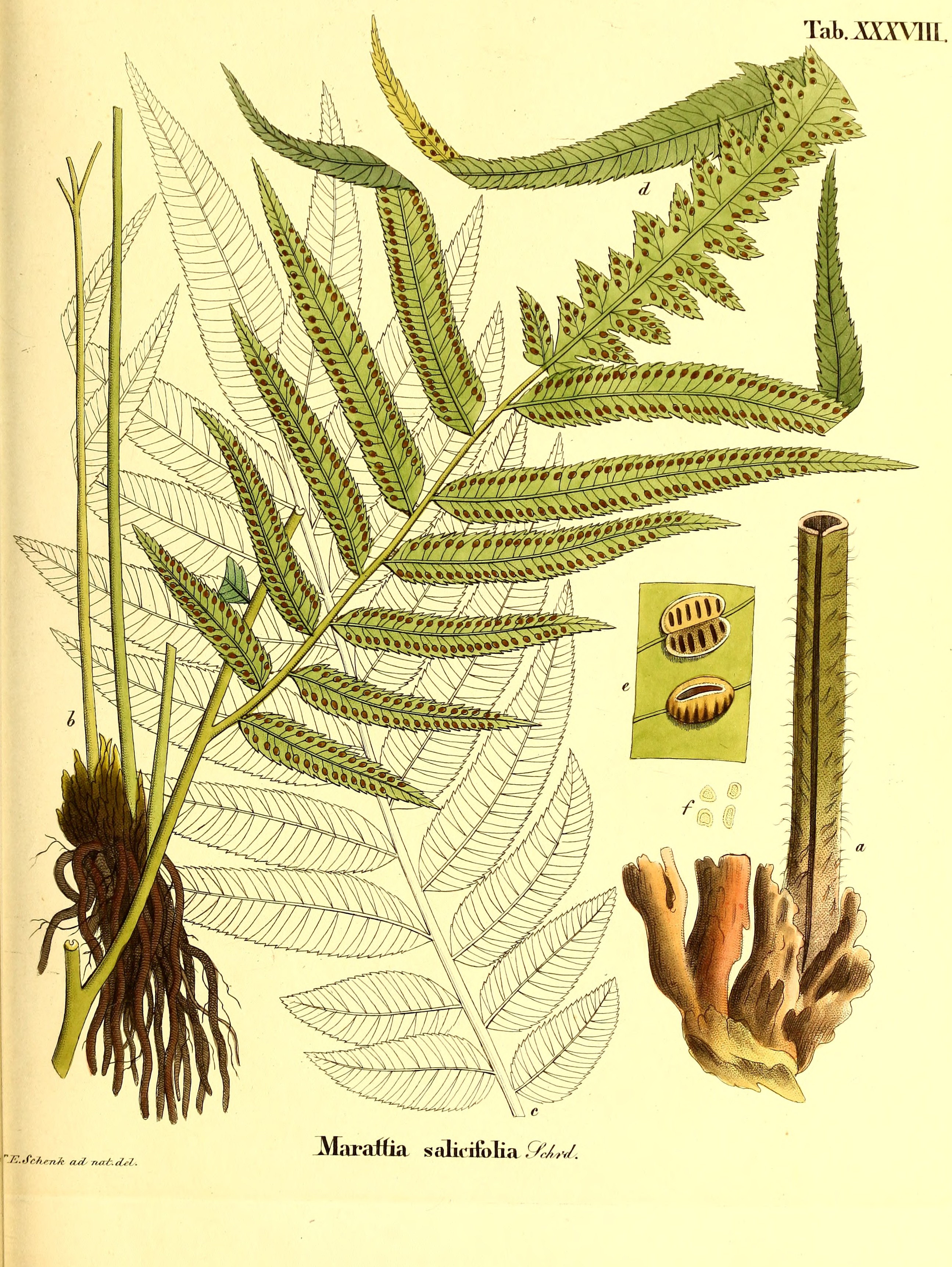 Title: Die Farrnkräuter in kolorirten Abbildungen naturgetreu Erläutert und Beschrieben Year: 1840 (1840s) Authors: Kunze, Gustav, 1793-1851 Subjects: Ferns Publisher: Leipzig, E. Fleischer Text Appearing Before Image: ' Text Appearing After Image: '